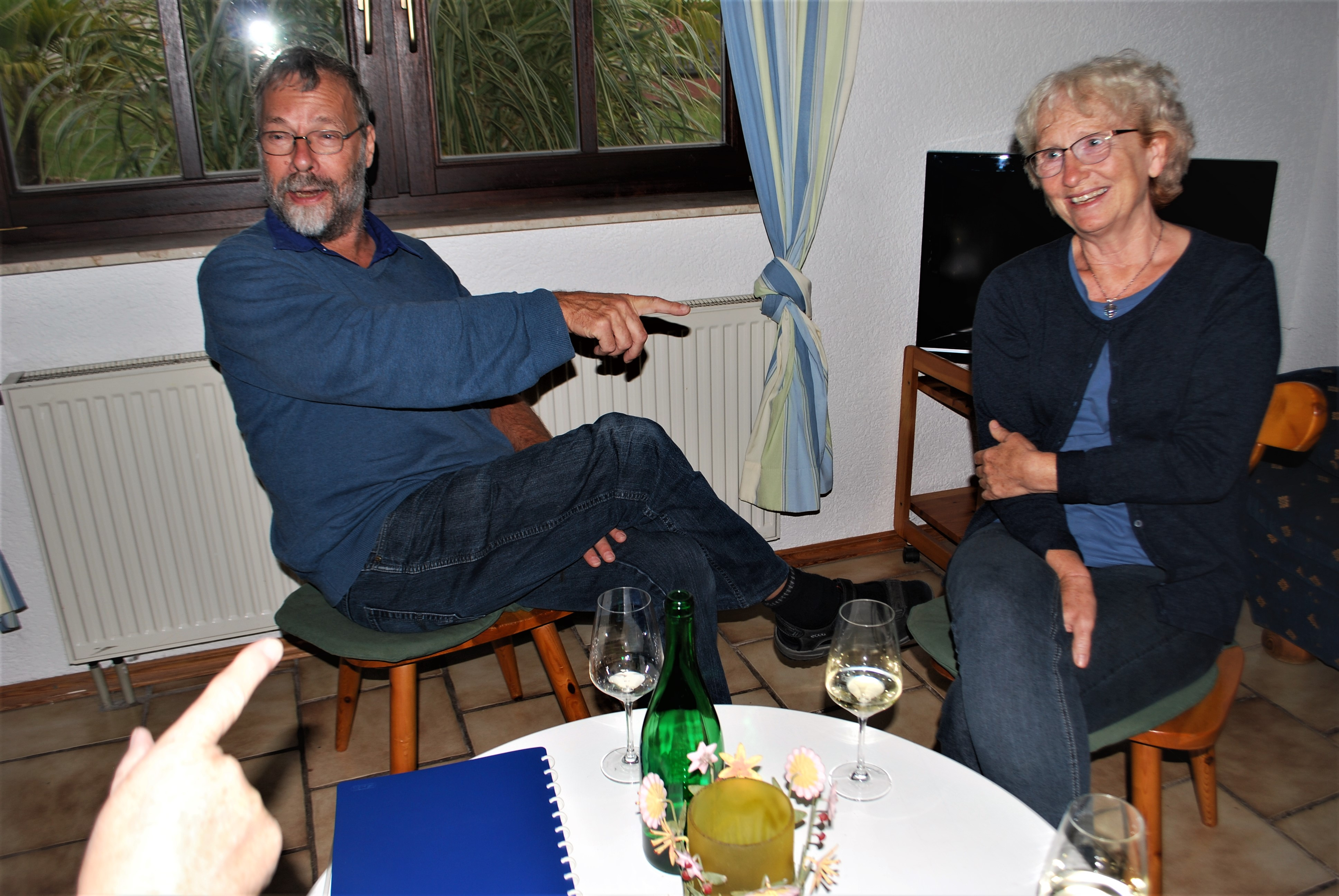 Hygge is a Danish and Norwegian word with a unique definition (although very very similar to Gemütlichkeit) "Hygge" as noun includes a feeling, a social atmosphere, and an action.